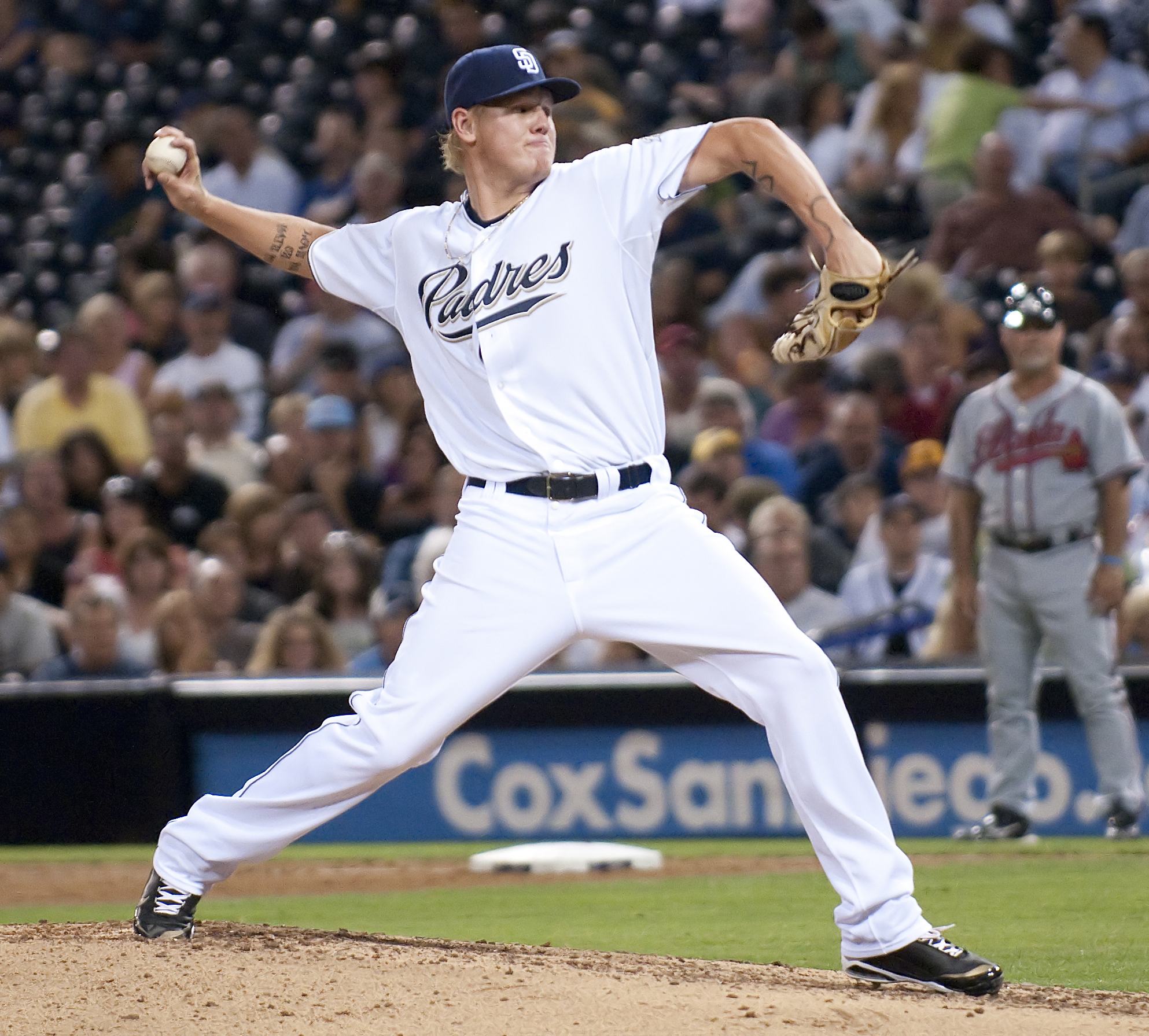 Mat Latos pitching for the San Diego Padres